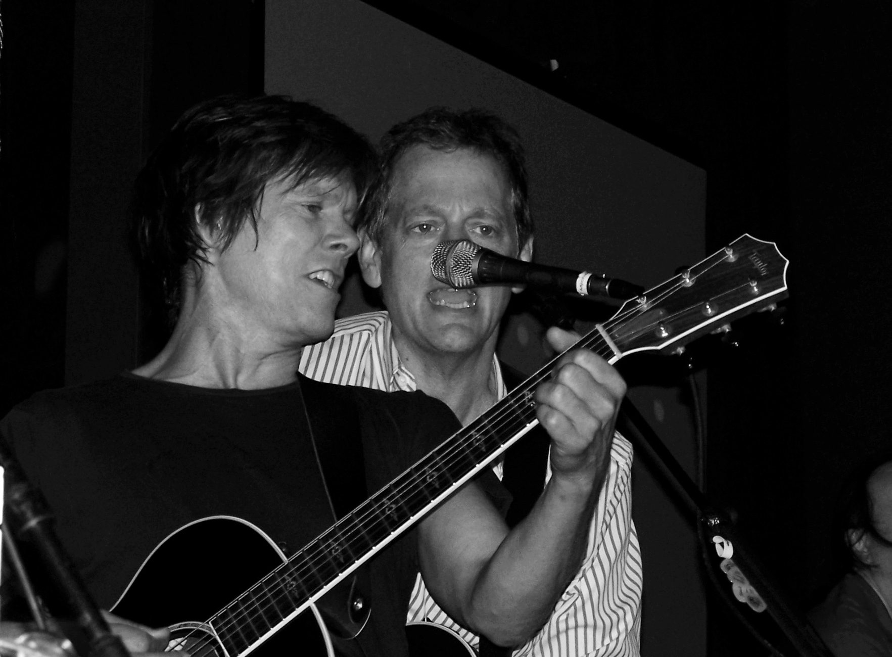 Bacon Brothers, Kevin Bacon, Micheal Bacon